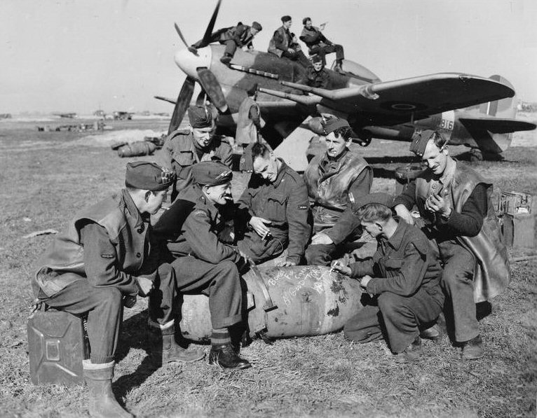 Groundcrew personnel from 438 Squadron RCAF working and relaxing at B78 Endhoven NL.